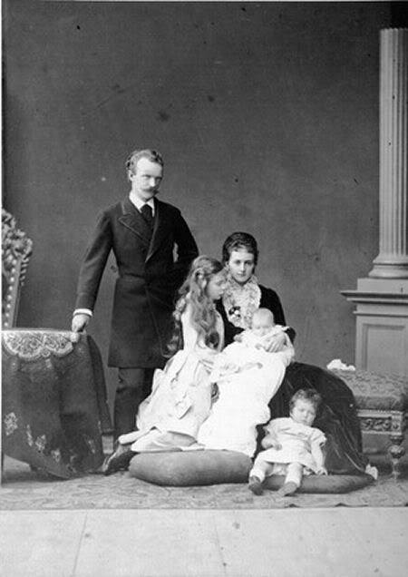 Duke Karl Theodor in Bavaria with his family: wife Maria José and 3 daughters: Amalie, Sophie and Elisabeth.